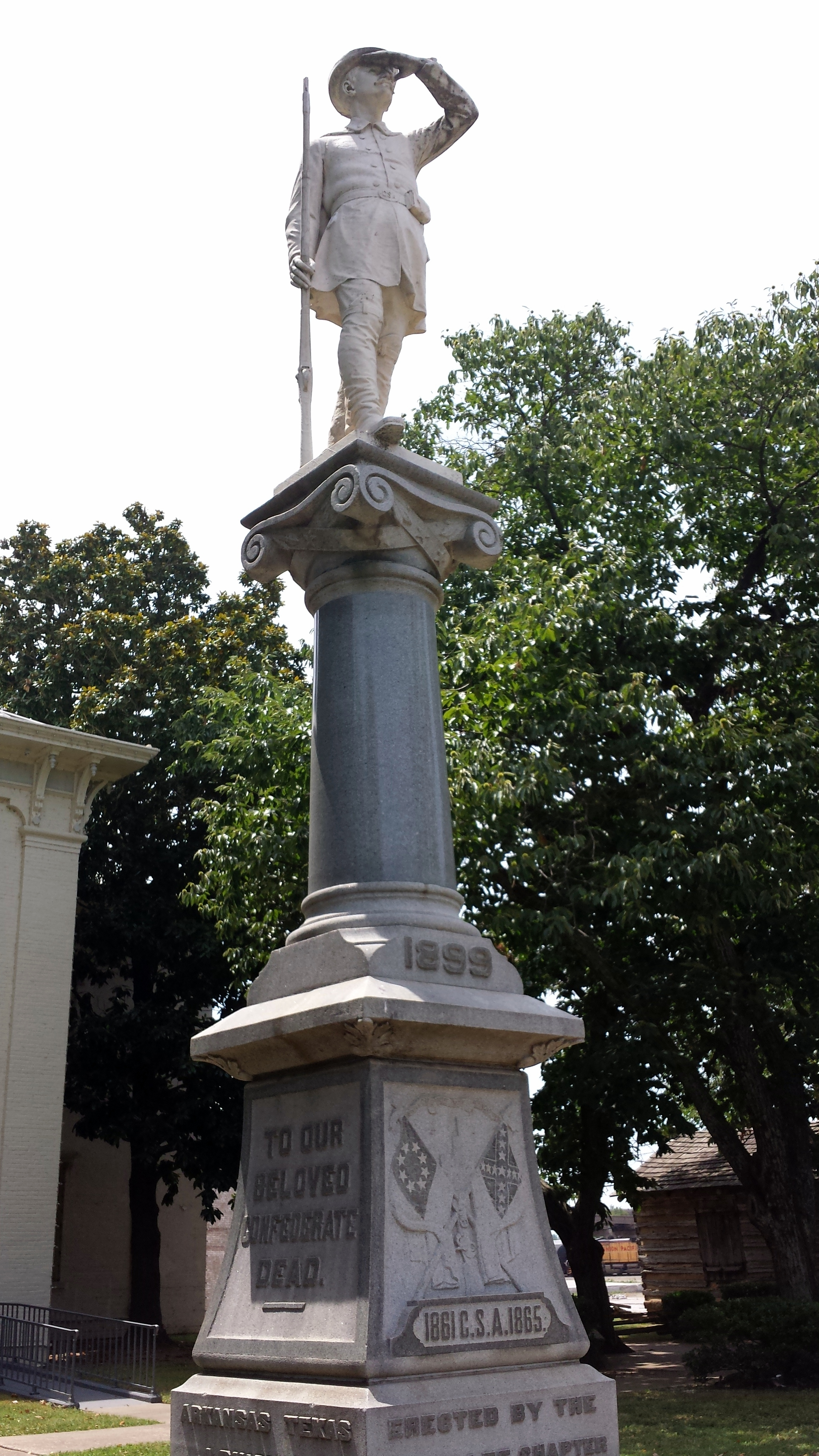 Front of the courthouse with confederate monument